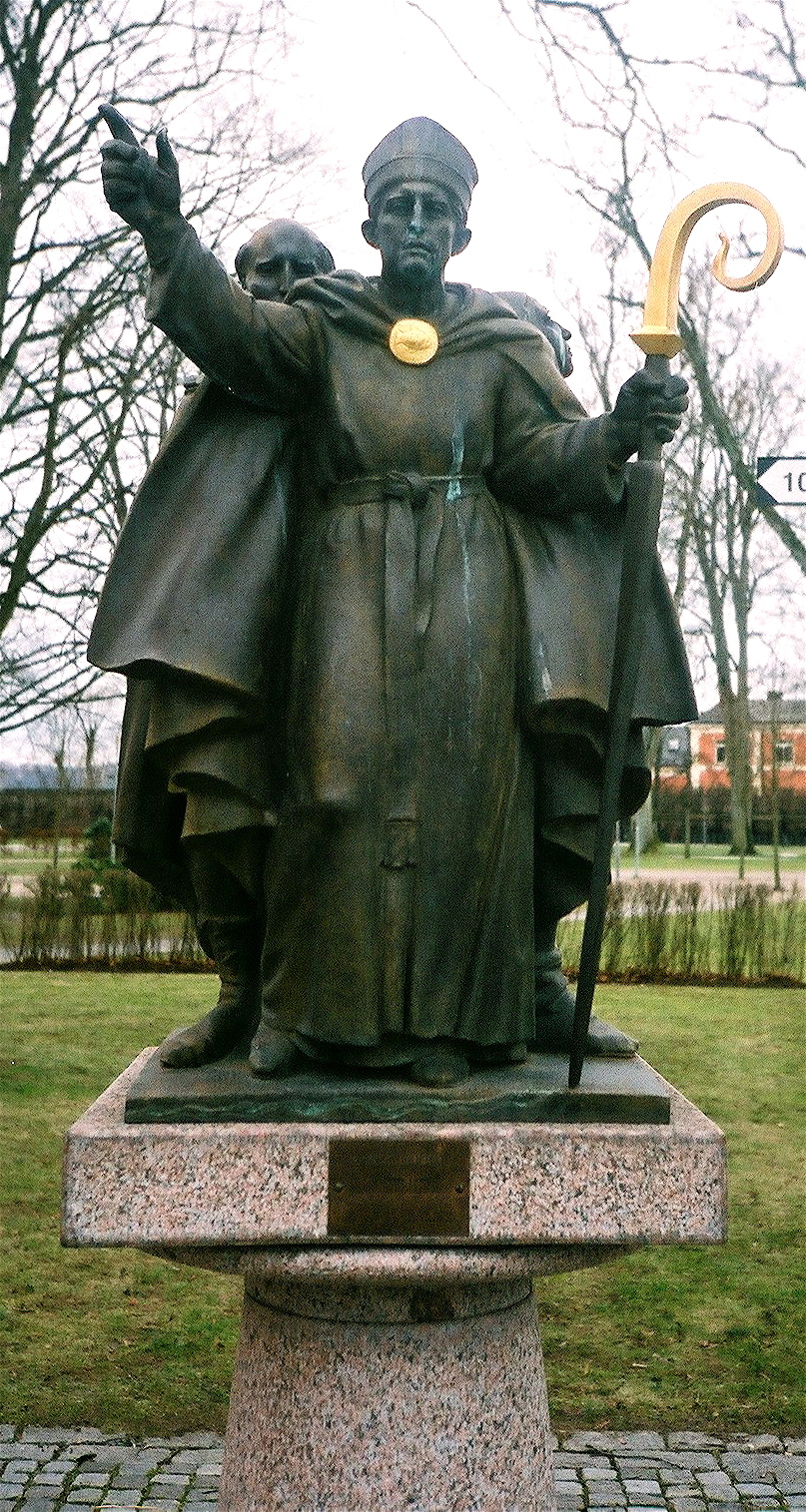 St. Sigfrid (died 1045), English-born Swedish evangelist and saint. Statue by Peter Linde outside Växjö cathedral.